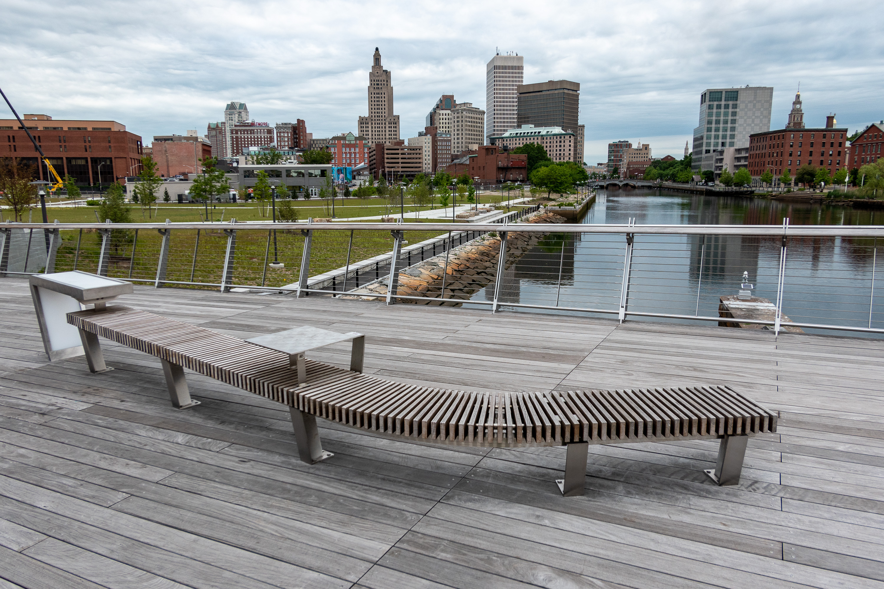 View from the Providence River Pedestrian and Bicycle Bridge looking to the city skyline